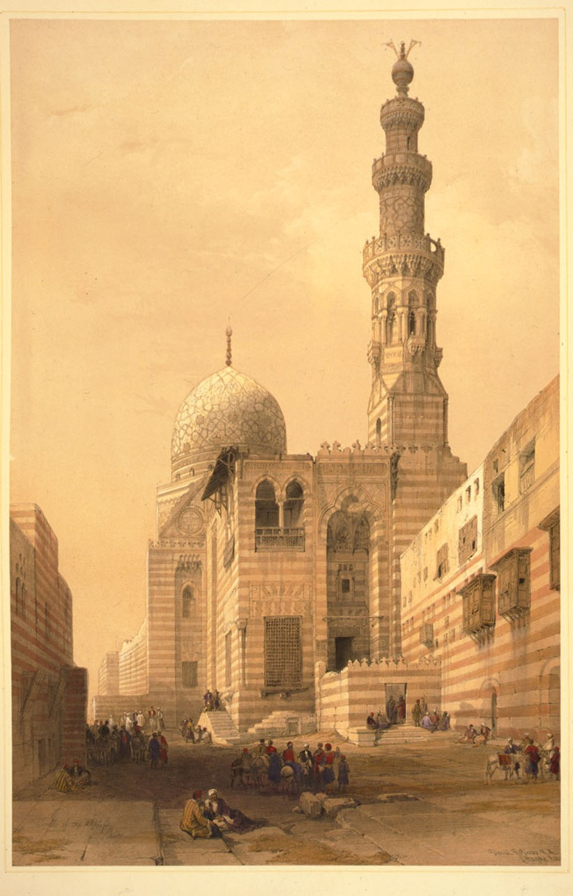 Picture of a print from David Roberts' Egypt & Nubia, issued between 1845 and 1849.